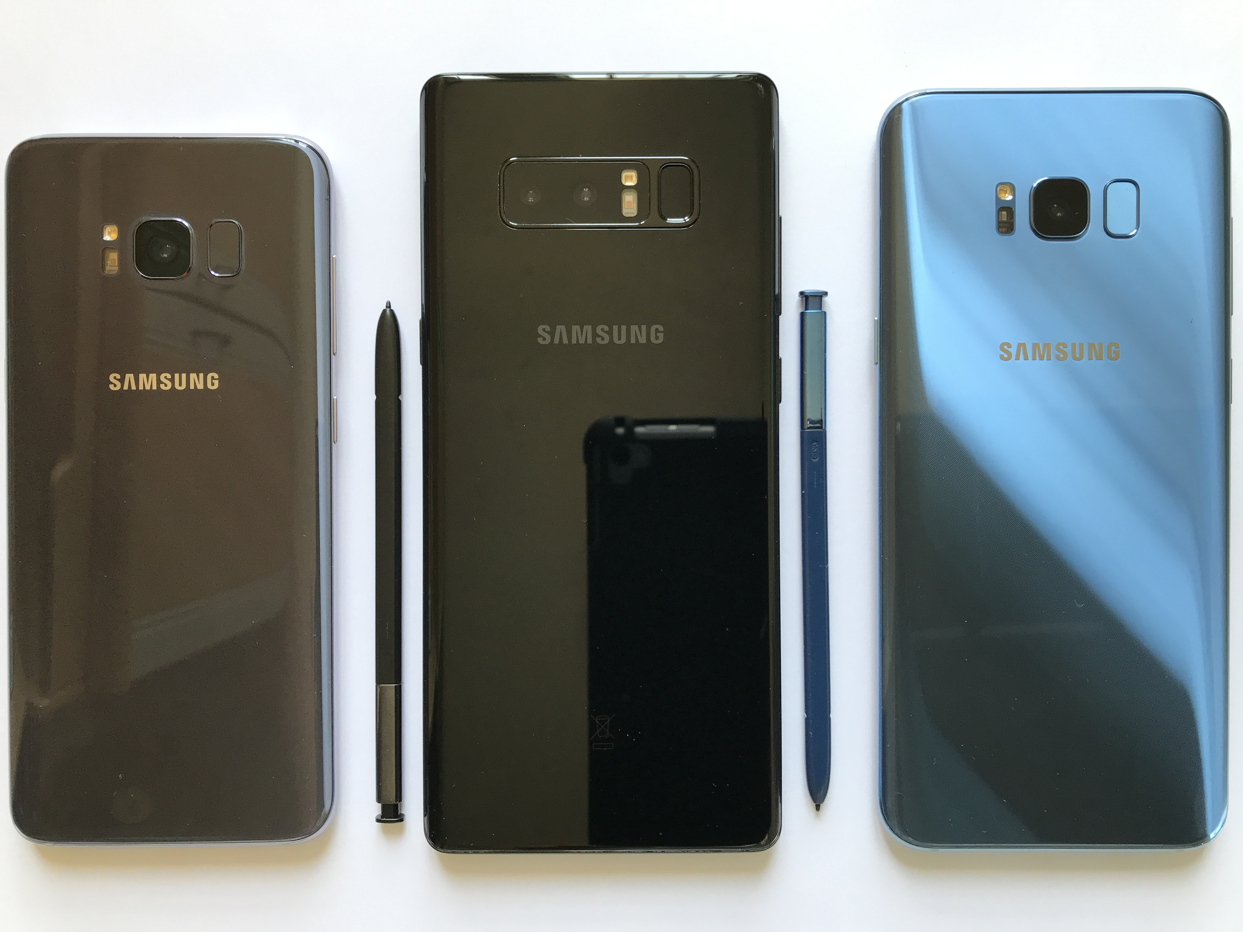 Samsung Galaxy S8, S8 +, Note 8